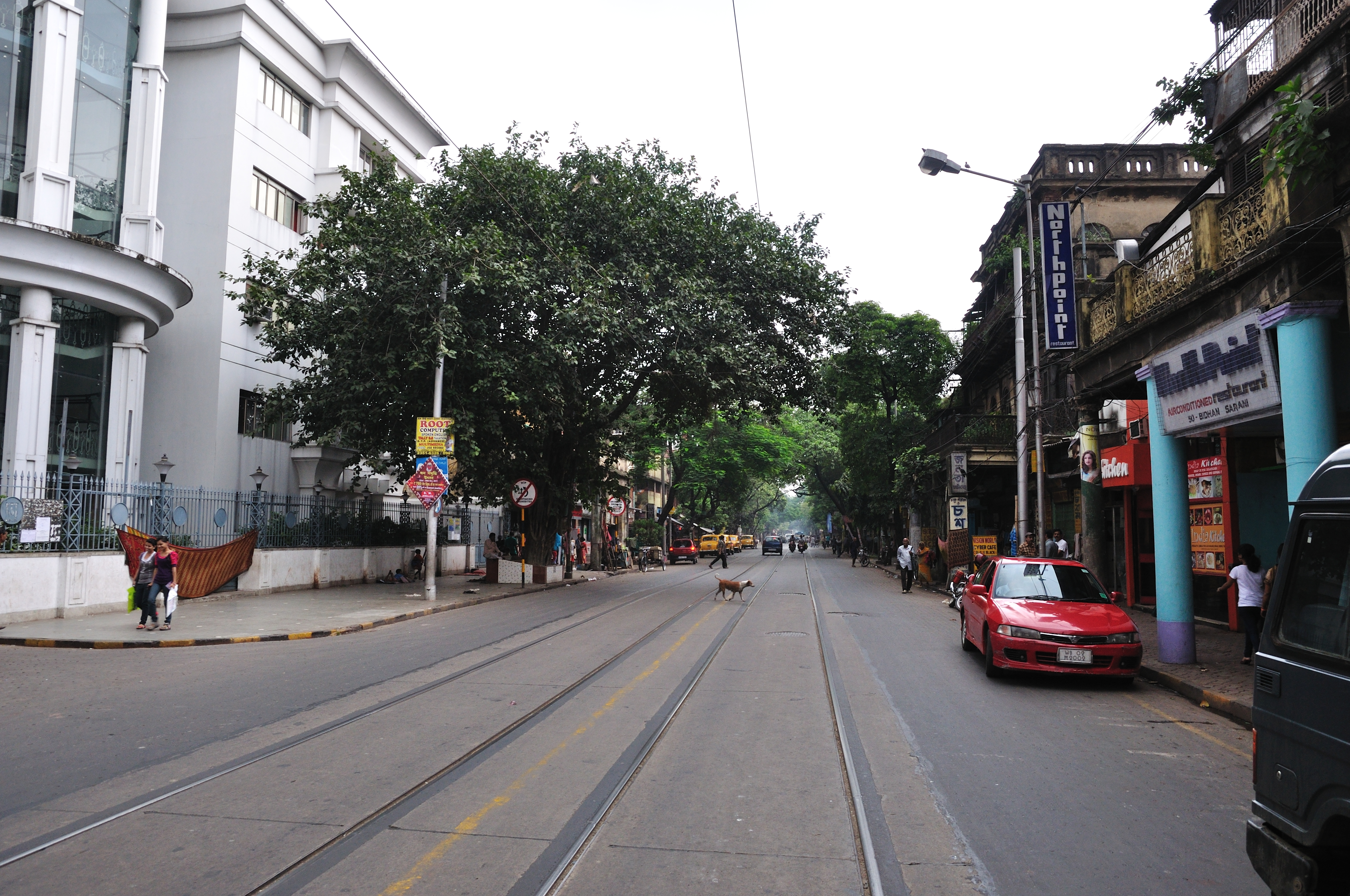 Bidhan Sarani, renamed from Cornwallis Street, near Vivekananda road crossing of Kolkata. This media file is uploaded with India loves Wikipedia event.